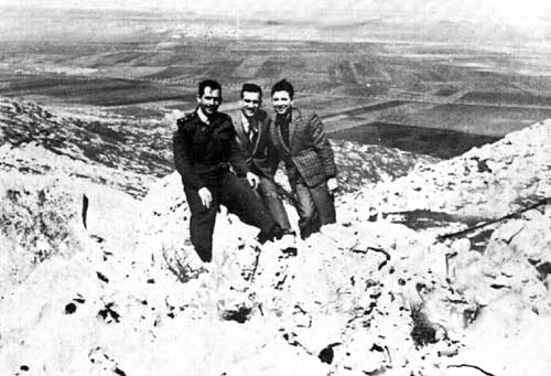 Eli Cohen (in the middle) with his friends from the Syrian army at the Golan Heights overlooking Israel. Civilians were not allowed to the Golan Heights since it had been heavily guarded military area. Cohen was case apart.